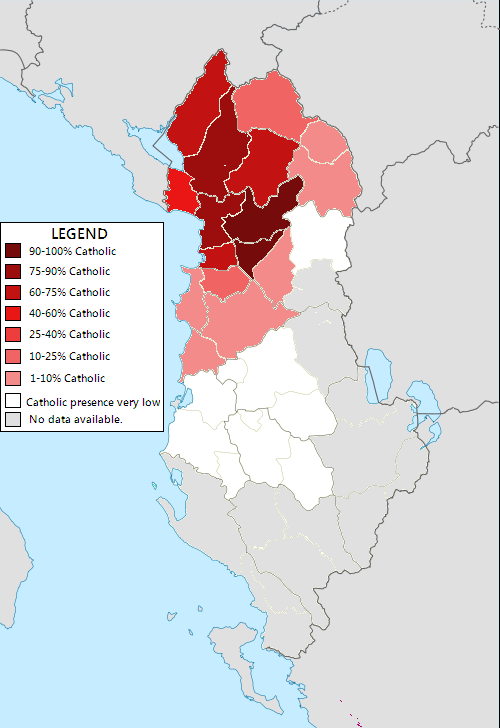 This map represents the distribution of Catholics in Albania around 1900. Main sources: 1. This map (look at the one on the right, the one on the left is about population density not religion): [1]. Data ultimately derived from the 1918 Albanian census. Sadly, because the census was taken at a time of political uncertainty, much of the South and East were not included, and thus the data is unavailable. 2. Gruber, Siegried. Regional variation in marriage patterns in Albania at the beginning of the 20th century. Data ultimately derived from the same source above (albeit with slight differences in certain provinces), and from there ultimately from the 1918 census. Link: (go to map 6). Note: Uniate Albanians are theoretically counted as Catholics here. What this actually means in practice, I don't know, as I haven't yet gotten my hands on stats of Uniates by province for the era.